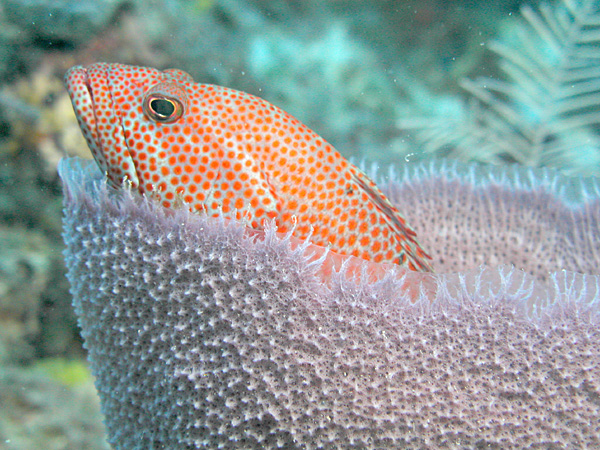 A Coney (Cephalopholis fulva) in a Vase Sponge, Roatan, Honduras.